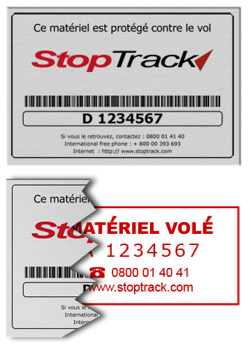 logo for Oxygen Group